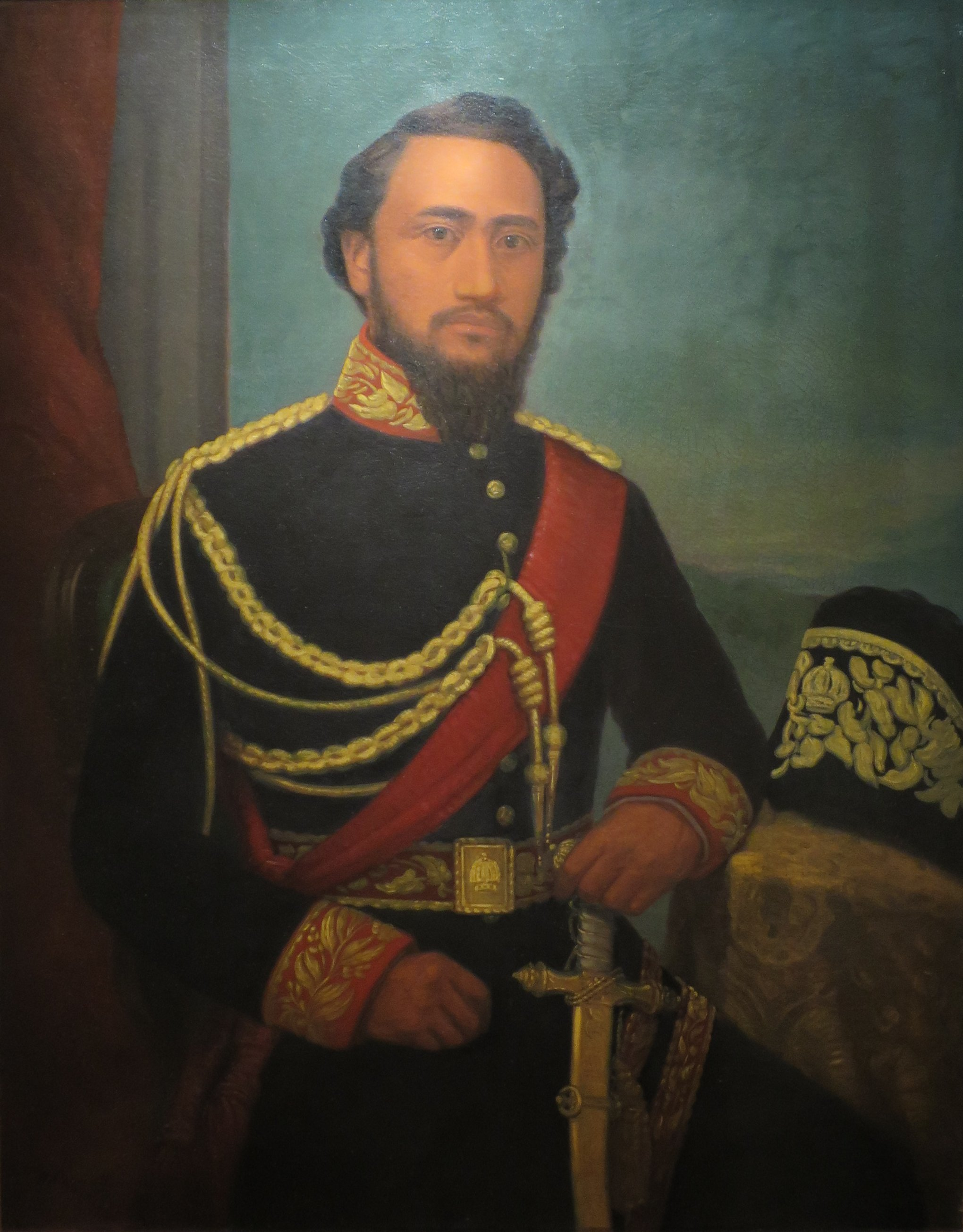 Portrait of King Kamehameha IV painted by William Cogswell, Bishop Museum